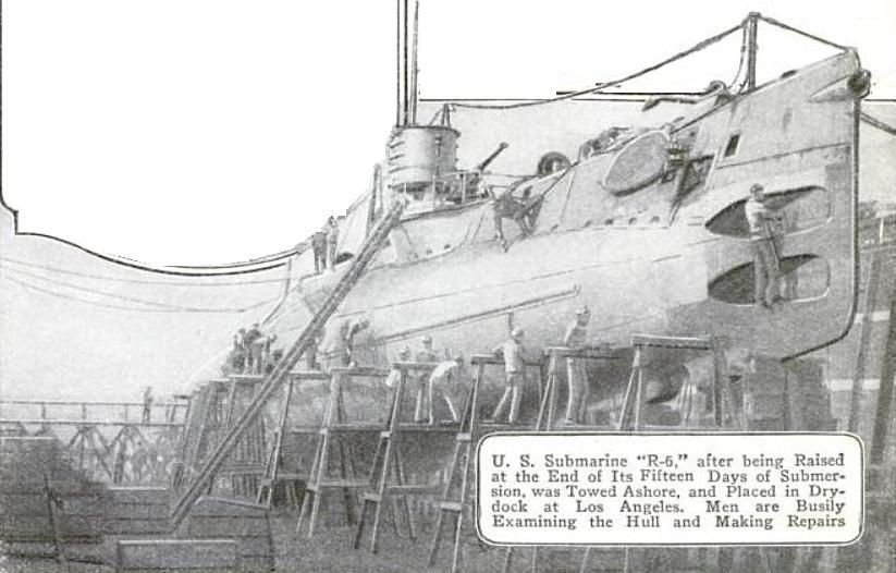 Photograph of the USS R-6 being reconditioned after salvage from sinking.